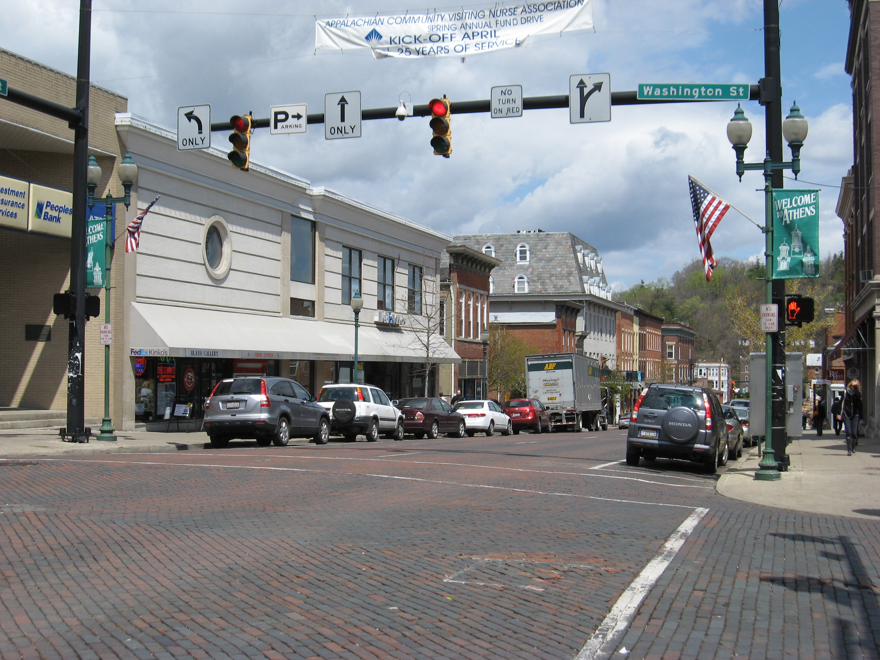 Downtown Athens (Court St.) (Athens, Ohio, USA)